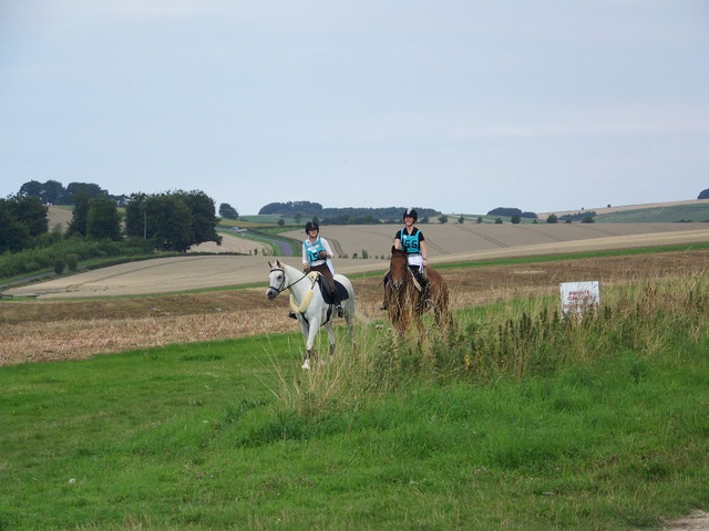 Competitive Trail Riders near Rockley Members of Endurance Great Britain taking part in The Barbury Castle event. Events are from 25 miles to 100 miles.